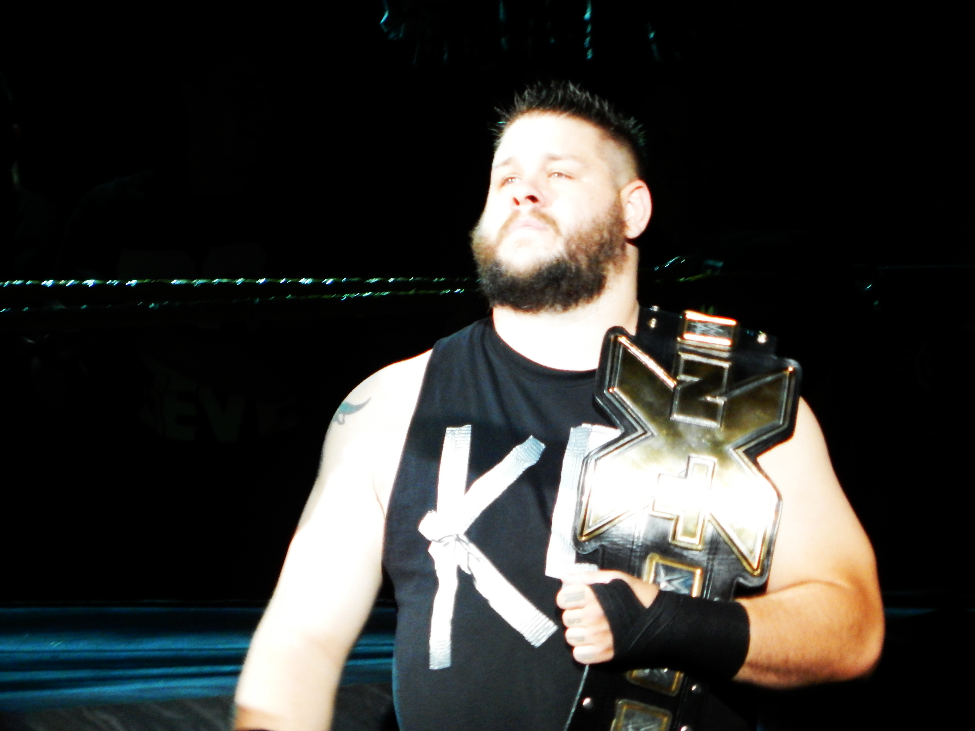 Wrestler Kevin Owens in 2015